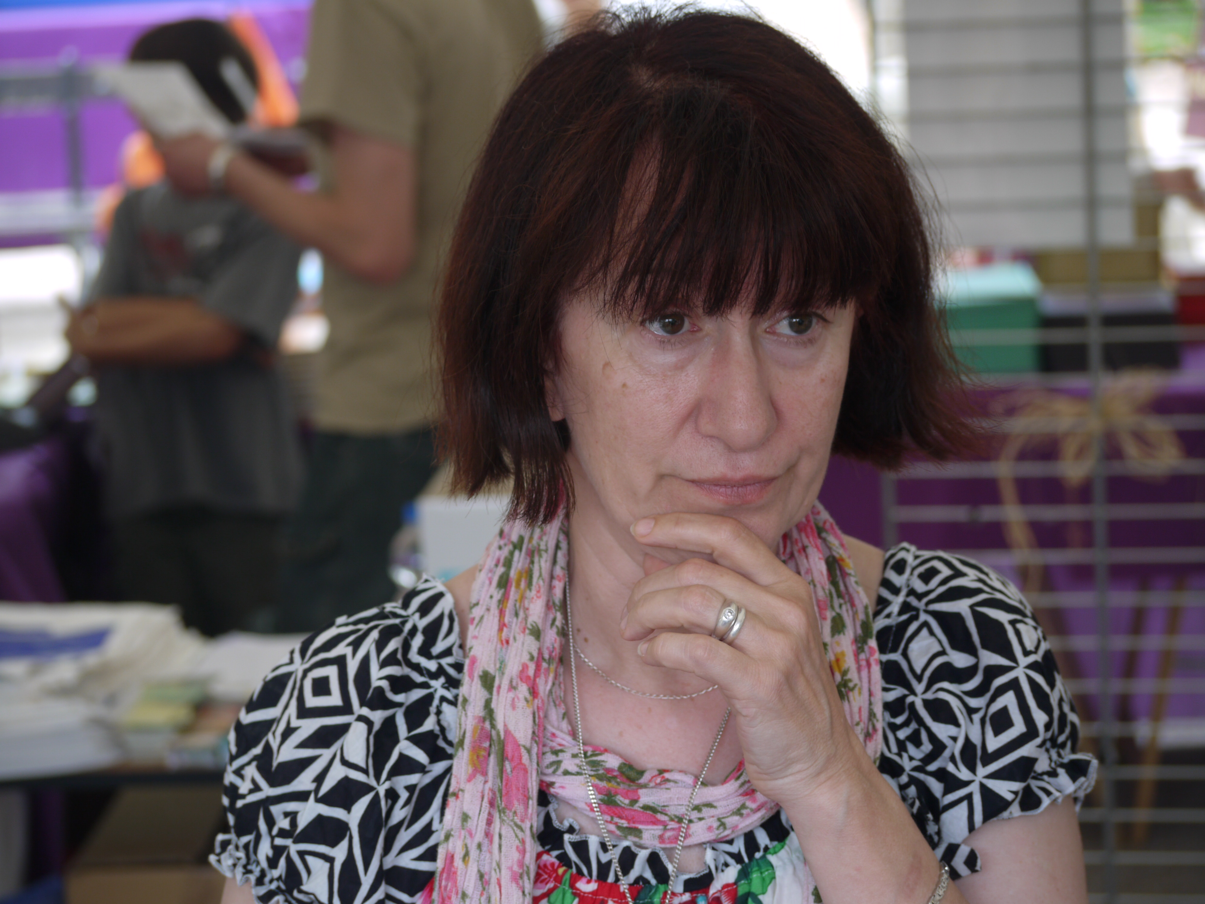 Photograph taken during the 2009 edition of the 'Comédie du Livre' of Montpellier, France. Personality rights warningAlthough this work is freely licensed or in the public domain, the person(s) shown may have rights that legally restrict certain re-uses unless those depicted consent to such uses. In these cases, a model release or other evidence of consent could protect you from infringement claims.